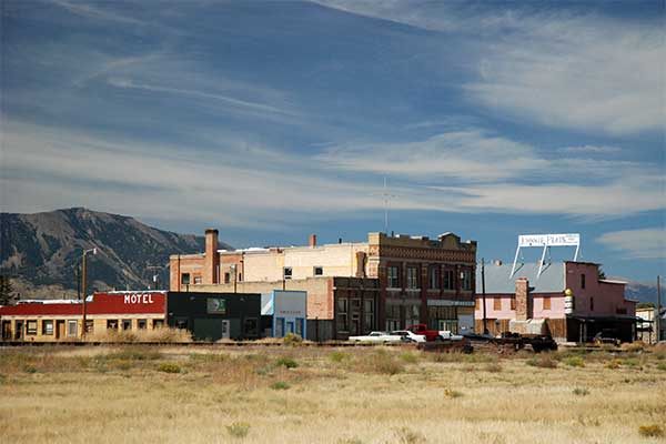 The historic business district of Lima. View to northwest.